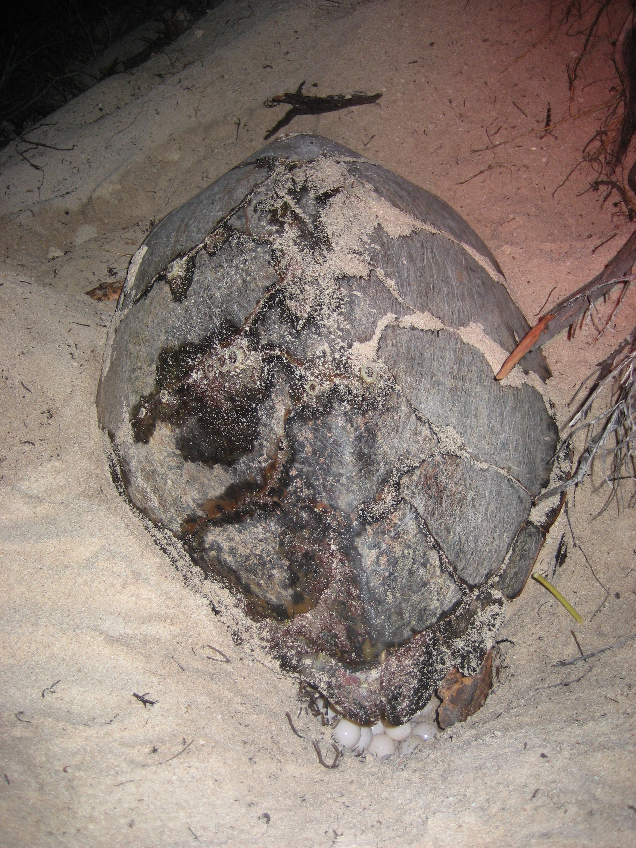 Nesting hawksbill (Eretmochelys imbricata) on Mona island, Puerto Rico